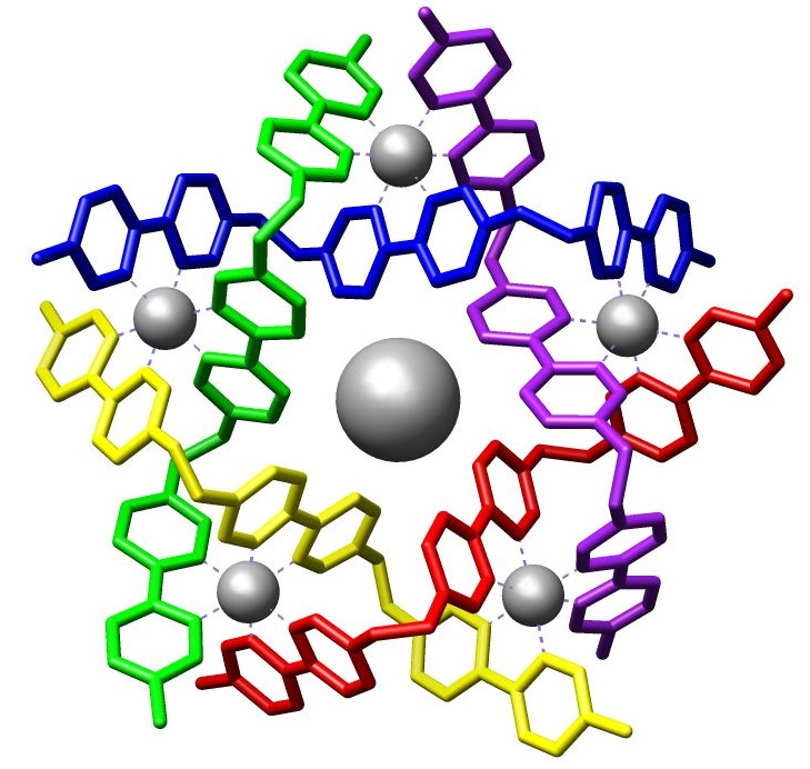 This is a picture generated from a crystal sturcture reported by Jean-Marie Lehn and coworkers in Angew. Chem., Int. Ed. Engl. 1996, 35, 1838-1840. It was made by myself and is free to be used by all others.